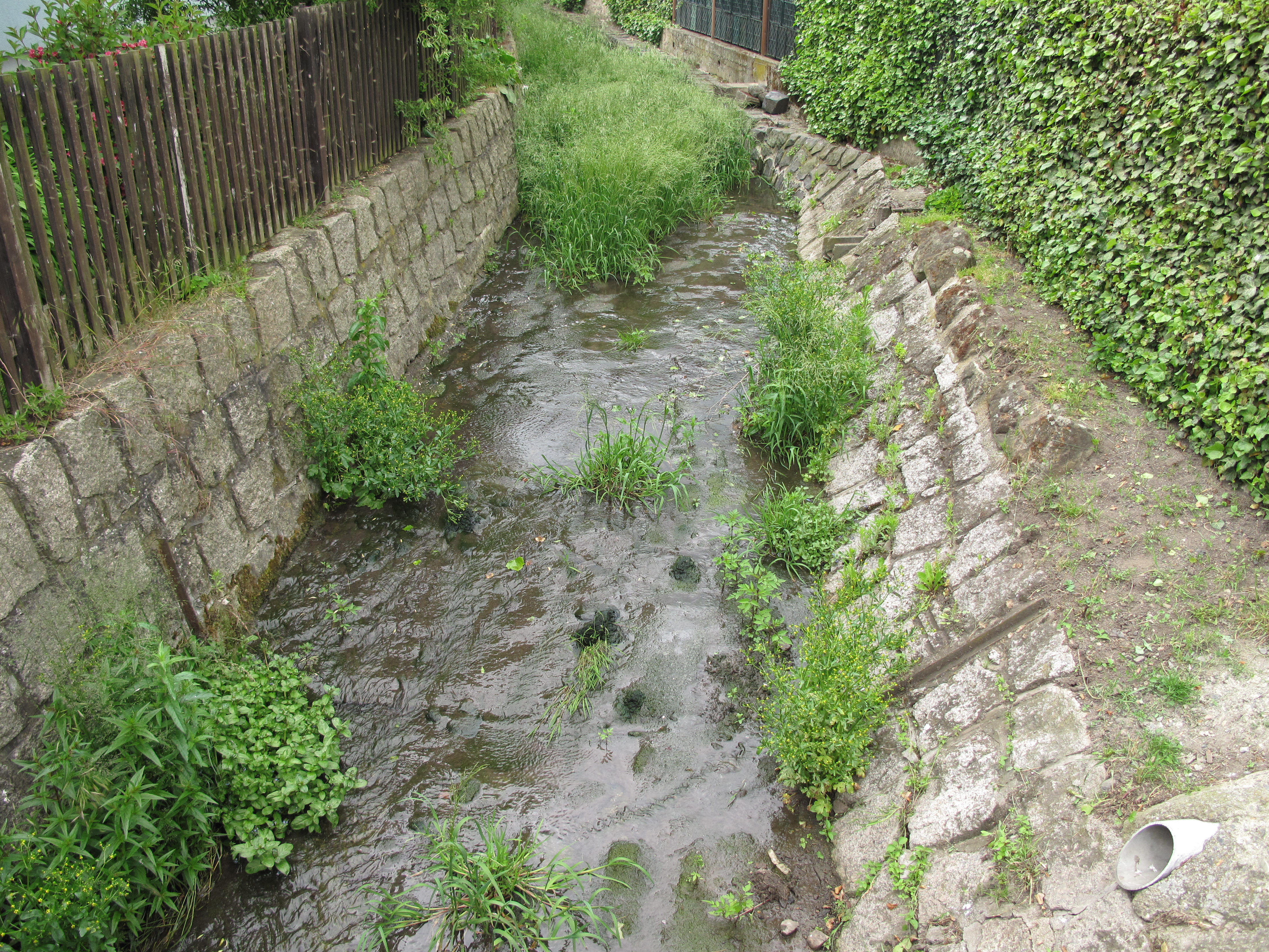 Chotiměřský Stream in Chotiměř village, Litoměřice District, Czech Republic.